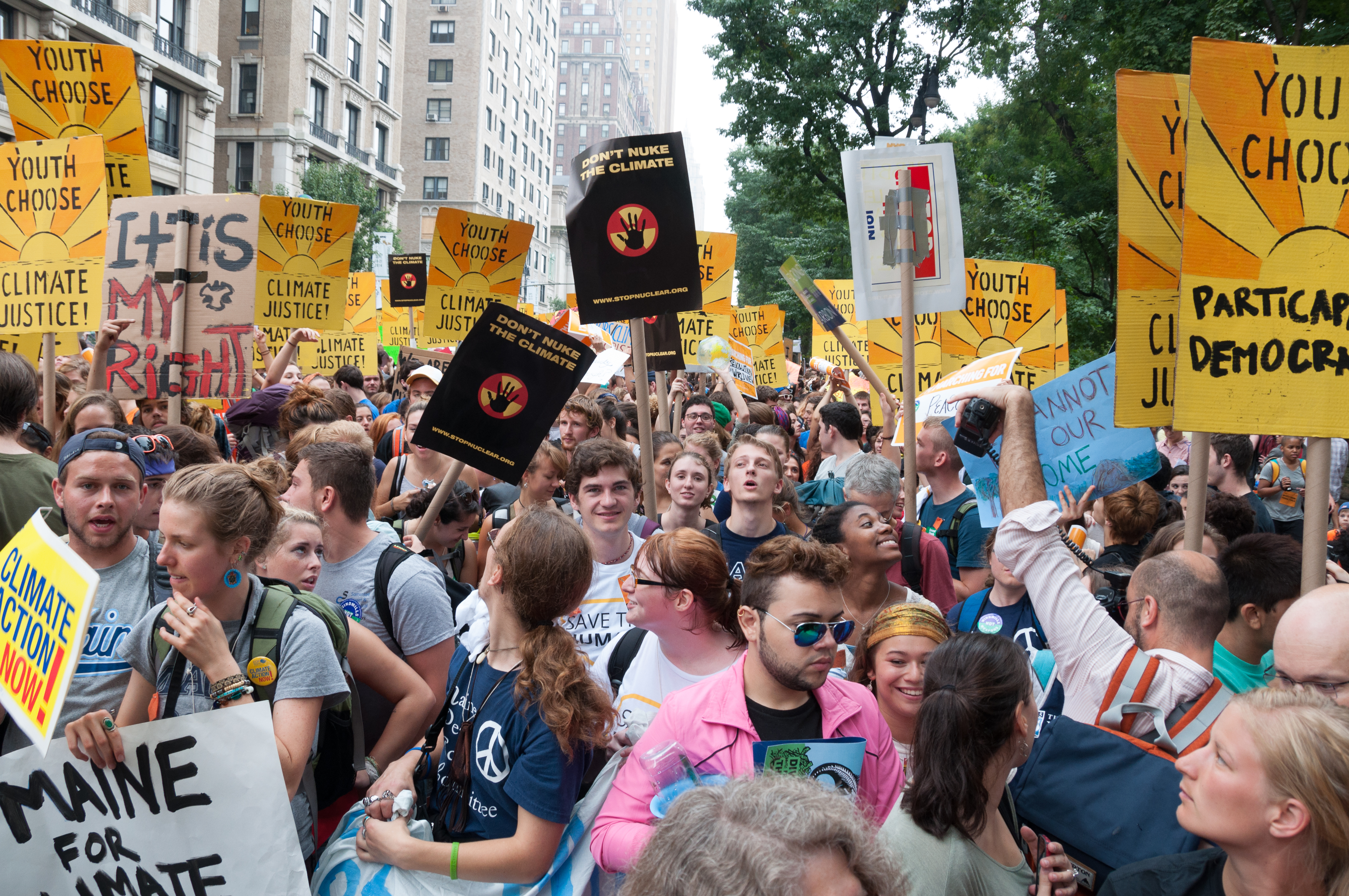 From the People's Climate March rally in New York City, Sept. 21 2014.